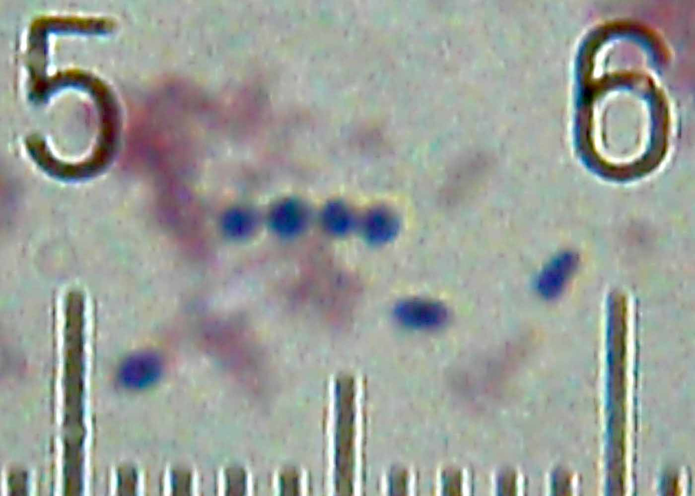 Some bacteria, presumably Streptococcus thermophilus from a sample of Activia® brand yogurt. 100× objective, 15× eyepiece. Numbered ticks are 11 µM apart. The scale of the full-sized version of this image is such that each pixel represents a 0.01-µM square. Gram stained.